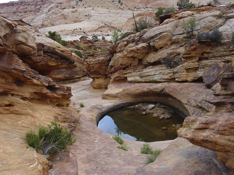 A water-filled pothole in Grand Wash, Utah. These features are called "tanks" or "waterpockets" - and the namesake for the Waterpocket Fold that forms the geologic structure that gives Capitol Reef its unique landscape.